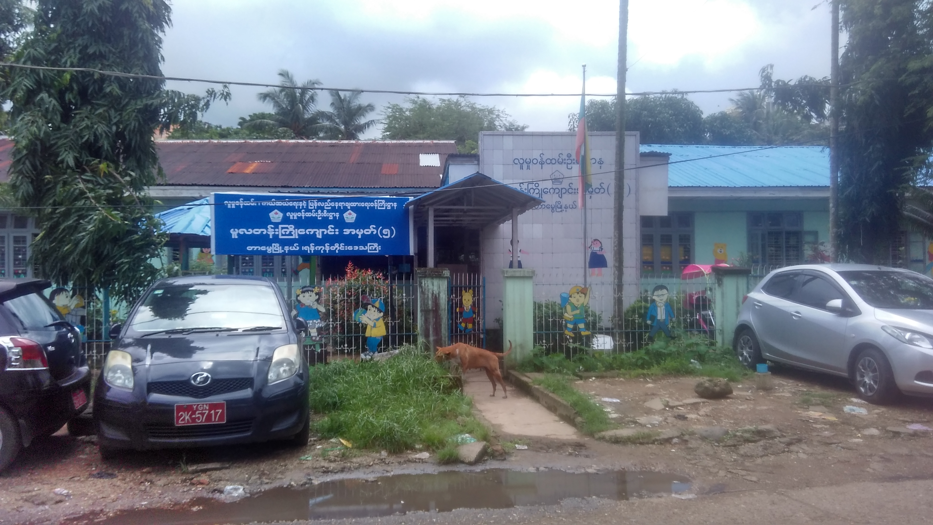 Pre Primary School (5) Tamwe မြန်မာဘာသာ: အမှတ် (၅) မူလတန်းကြိုကျောင်း၊ တာမွေမြို့နယ်၊ ရန်ကုန်။